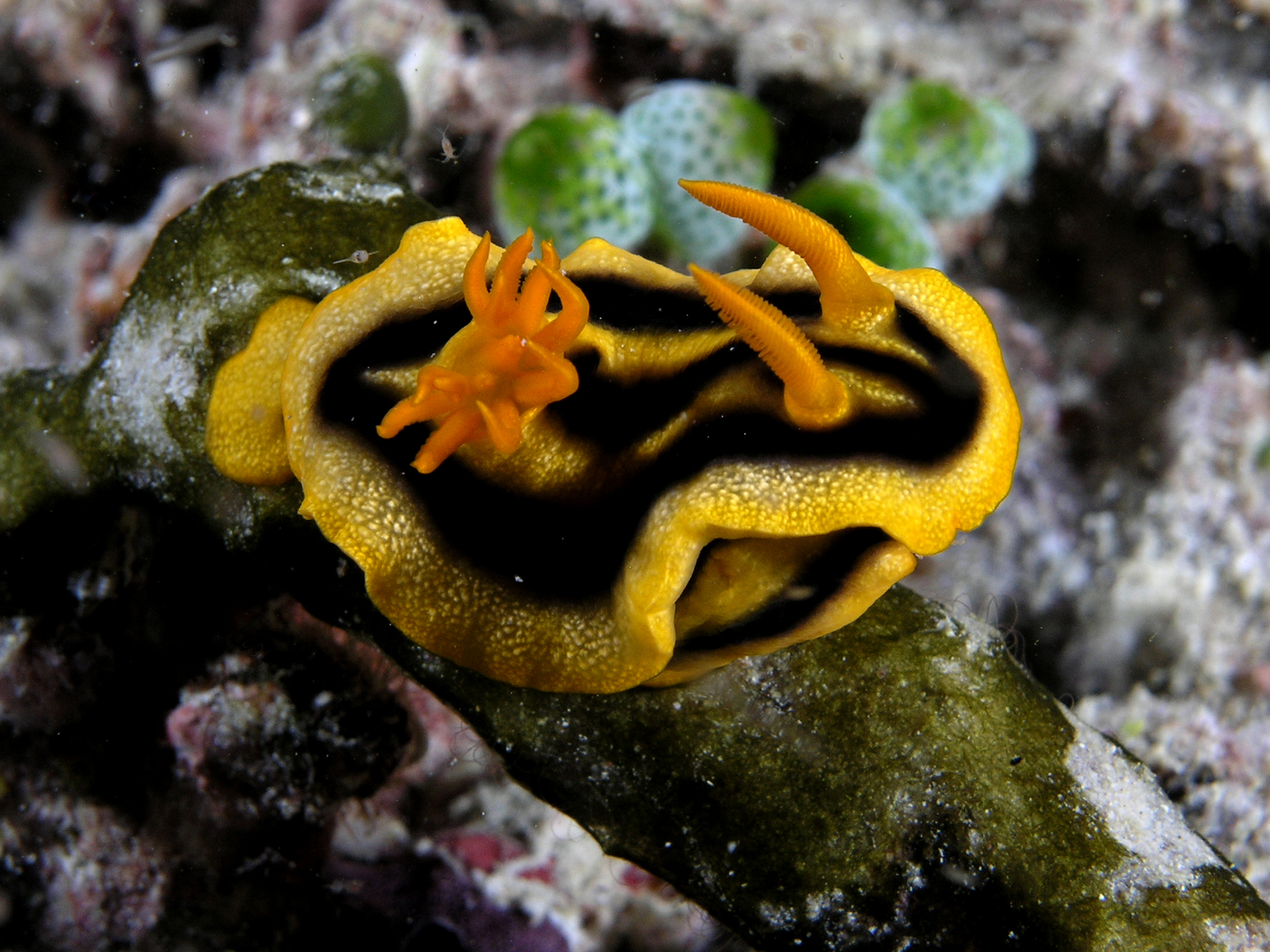 Chromodorid nudibranch in Komodo National Park